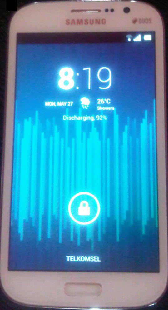 Galaxy Grand DUOS GT-I9082 with Android 4.2.2 Lockscreen